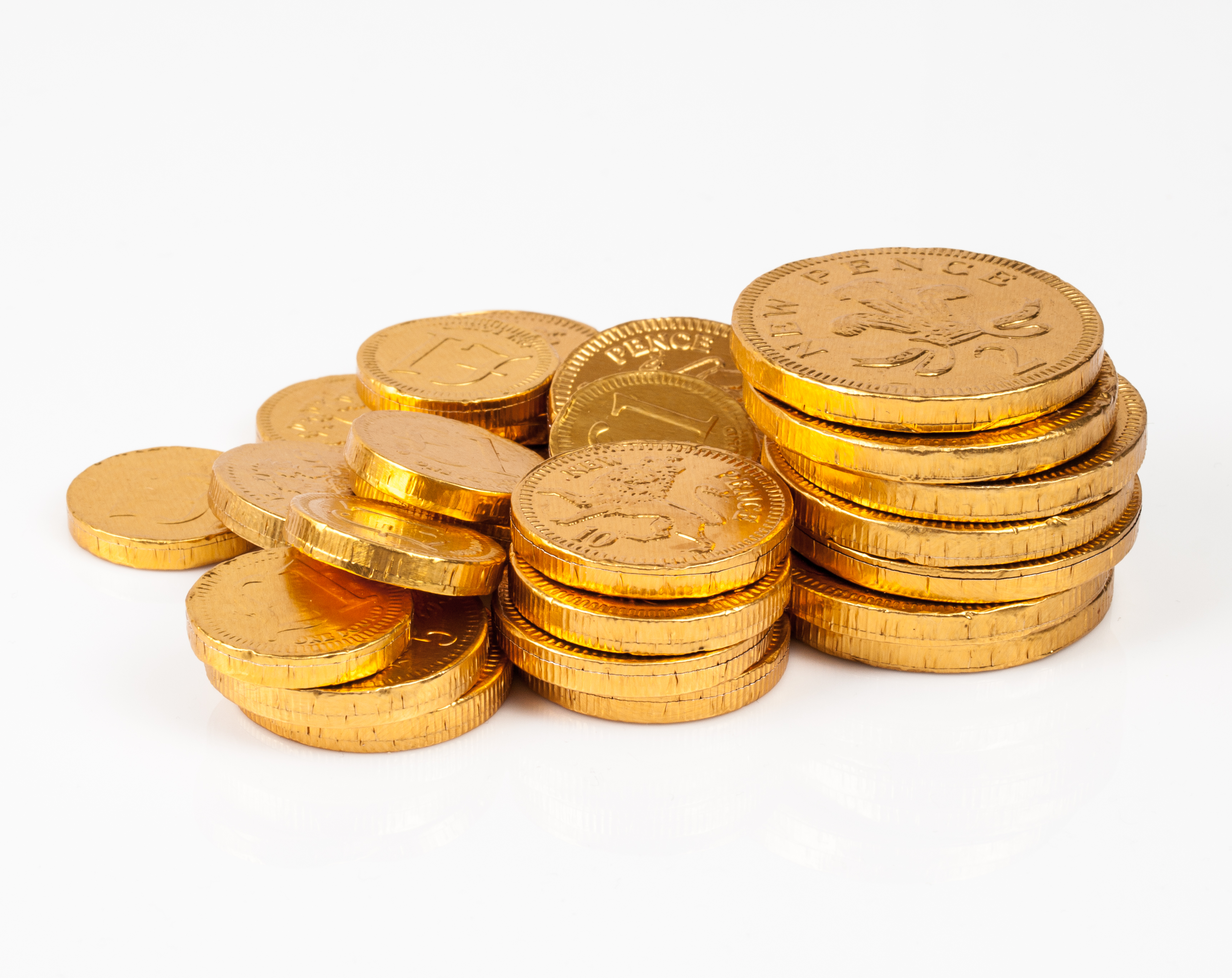 Chocolate coins PERMISSION TO USE: you are welcome to use this photo free of charge for any purpose including commercial. I am not concerned with how attribution is provided - a link to my flickr page or my name is fine. If the used in a context where attribution is impractical, that's fine too. I want my photography to be shared widely. I like hearing about where my photos have been used so please send me links, screenshots or photos where possible.